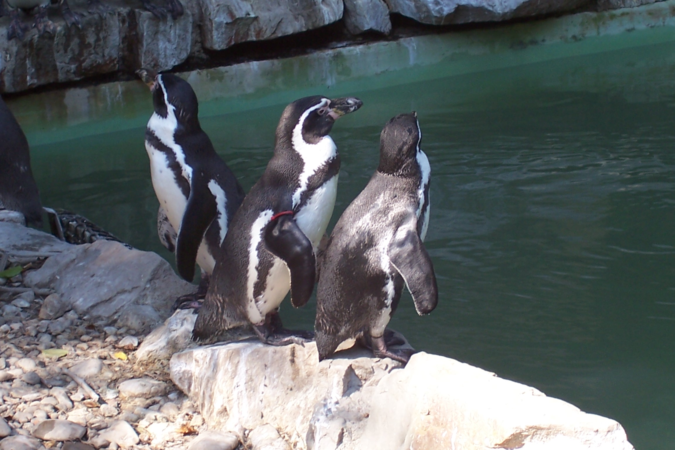 Zoo Zlín, Czech Republic.